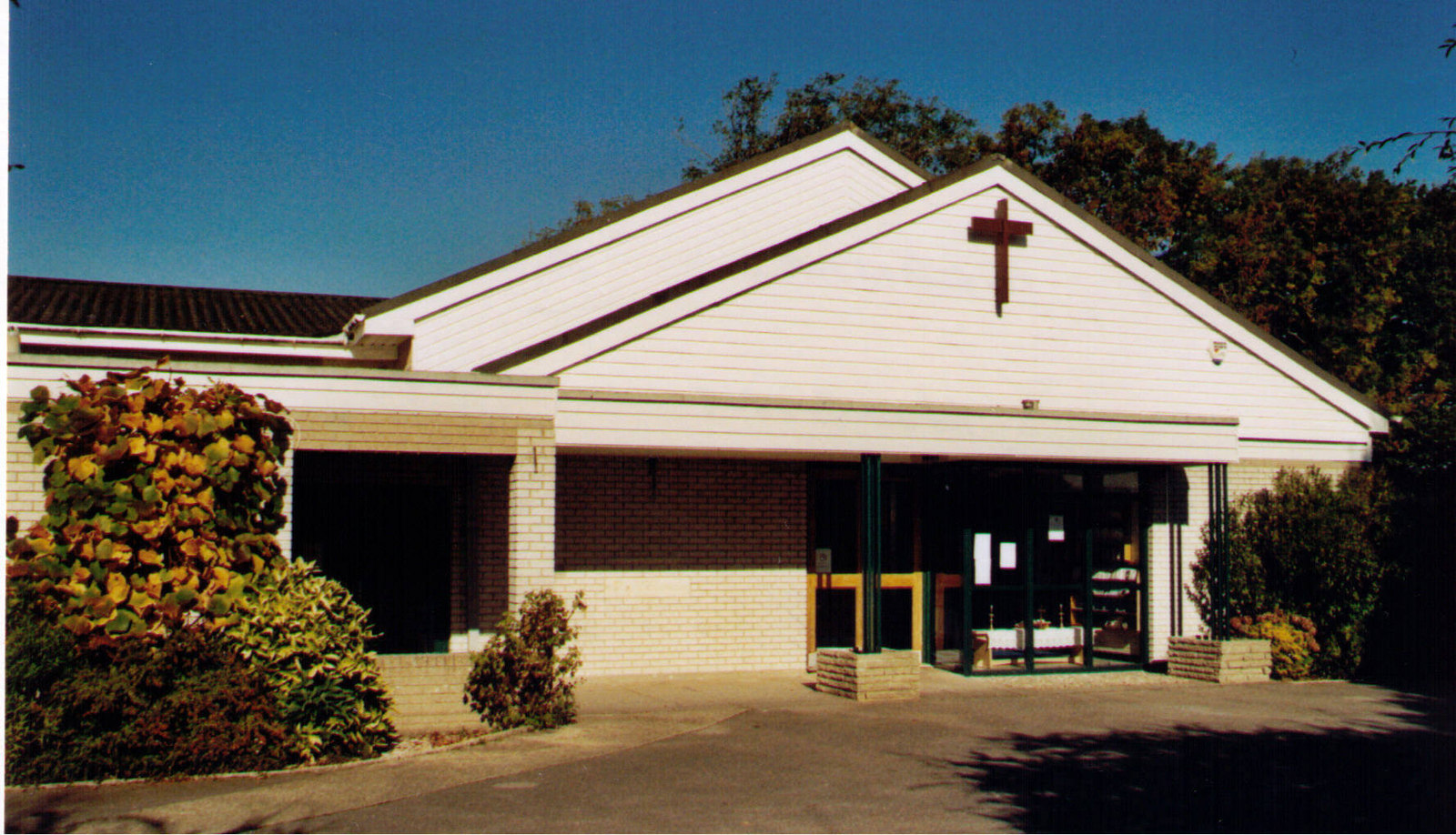 St Bernard, Holbury